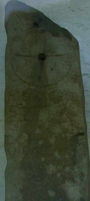 Kirkmadrine Stone I, Dumfries and Galloway, Scotland - detail of 5th century christian stone